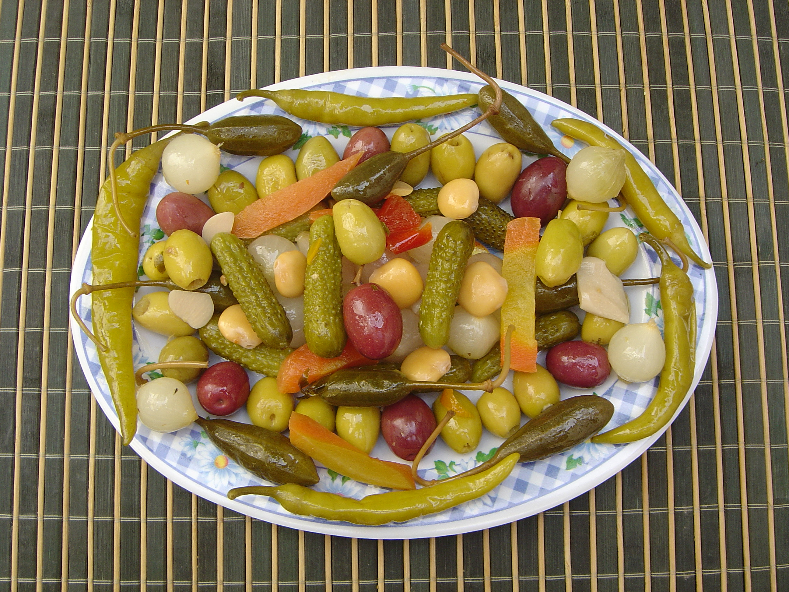 This is an image of food from Algeria